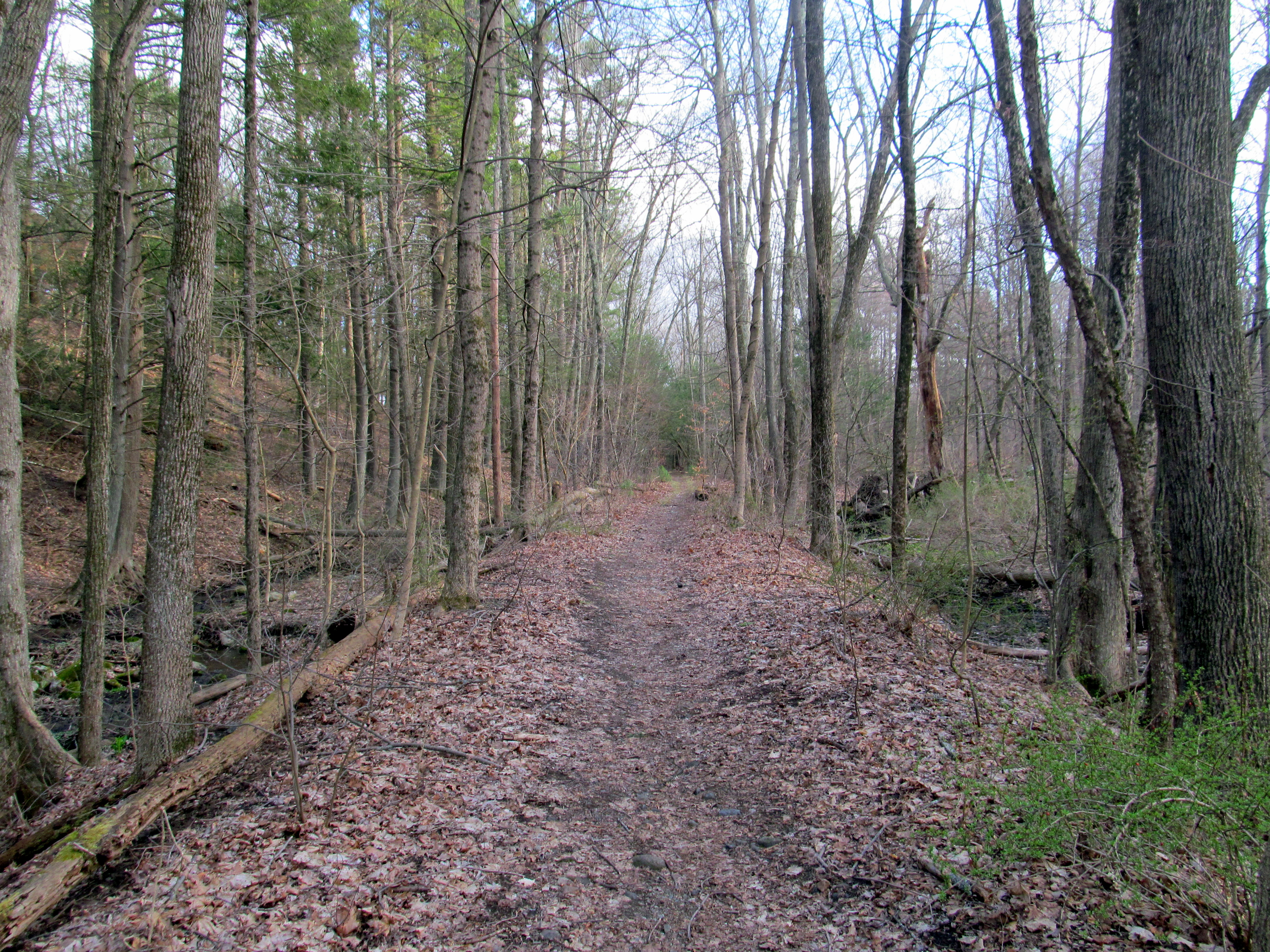 Right-of-way of the Boston and Worcester Street Railway's branch to Natick in April 2016